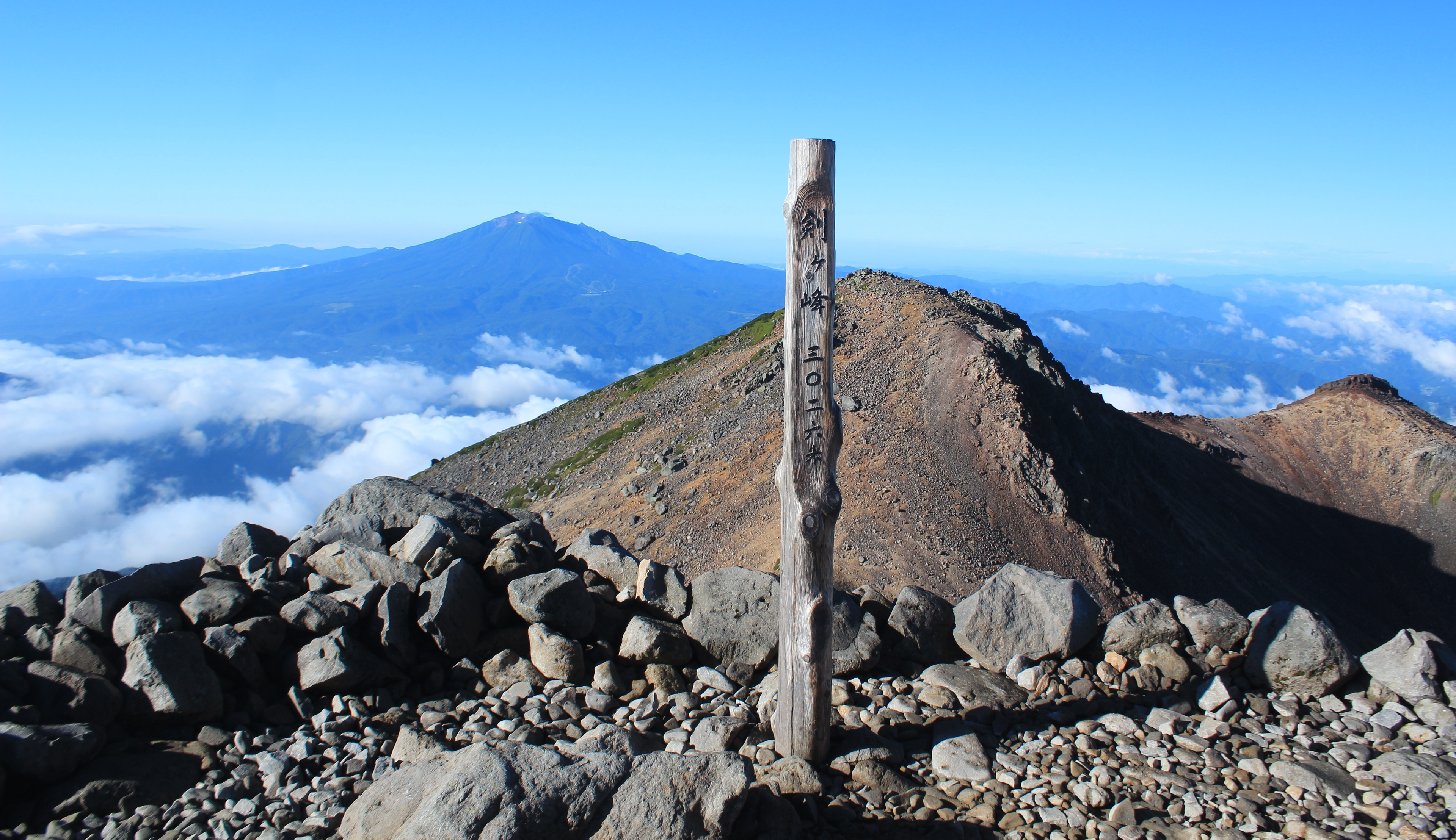 Mount Dainichi and Mount Ontake seen from Kengamine, top of Mount Norikura, in Hida Mountains, Nagano pref. and Gifu pref., Japan